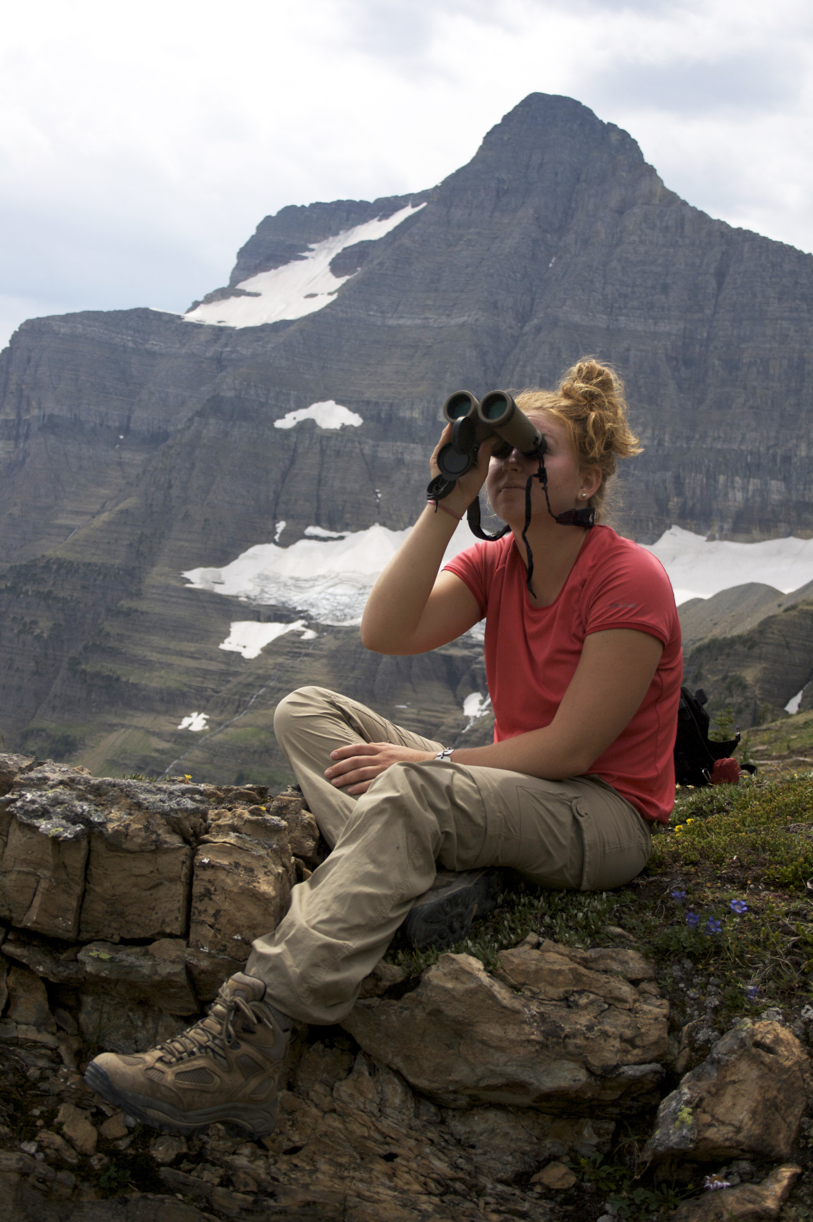 Scanning for mountain goats as part of the high country citizen science project.